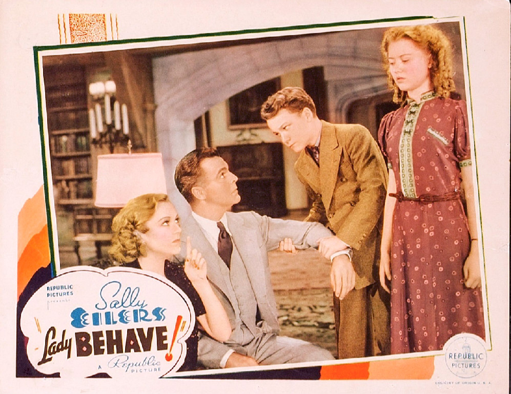 Lobby card from the 1937 film Lady Behave!.